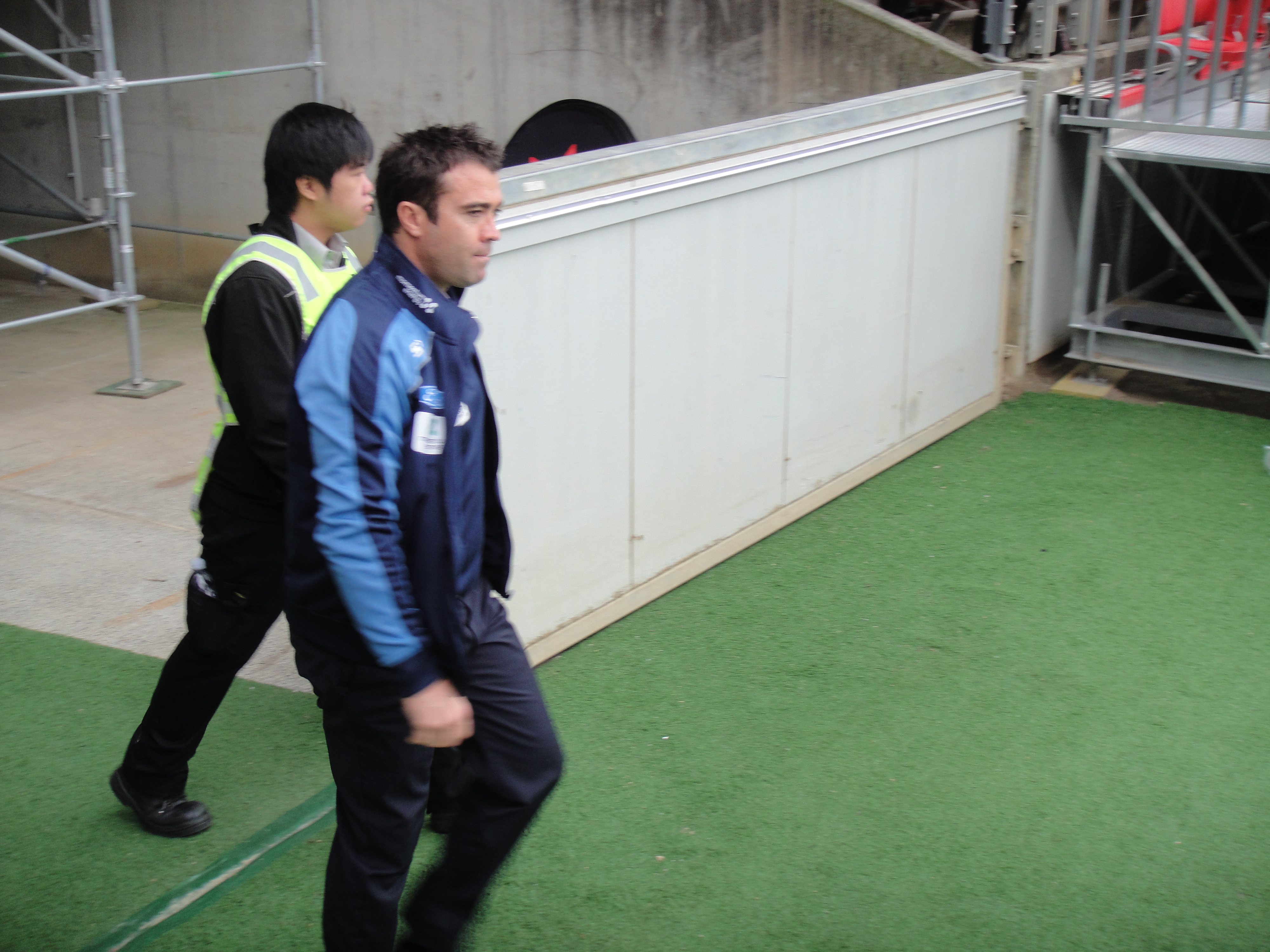 Geelong Cats coach Chris Scott.